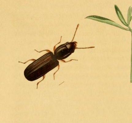 Cryptolestes spartii